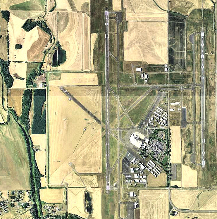 USGS digital orthophoto of Eugene Airport in Oregon